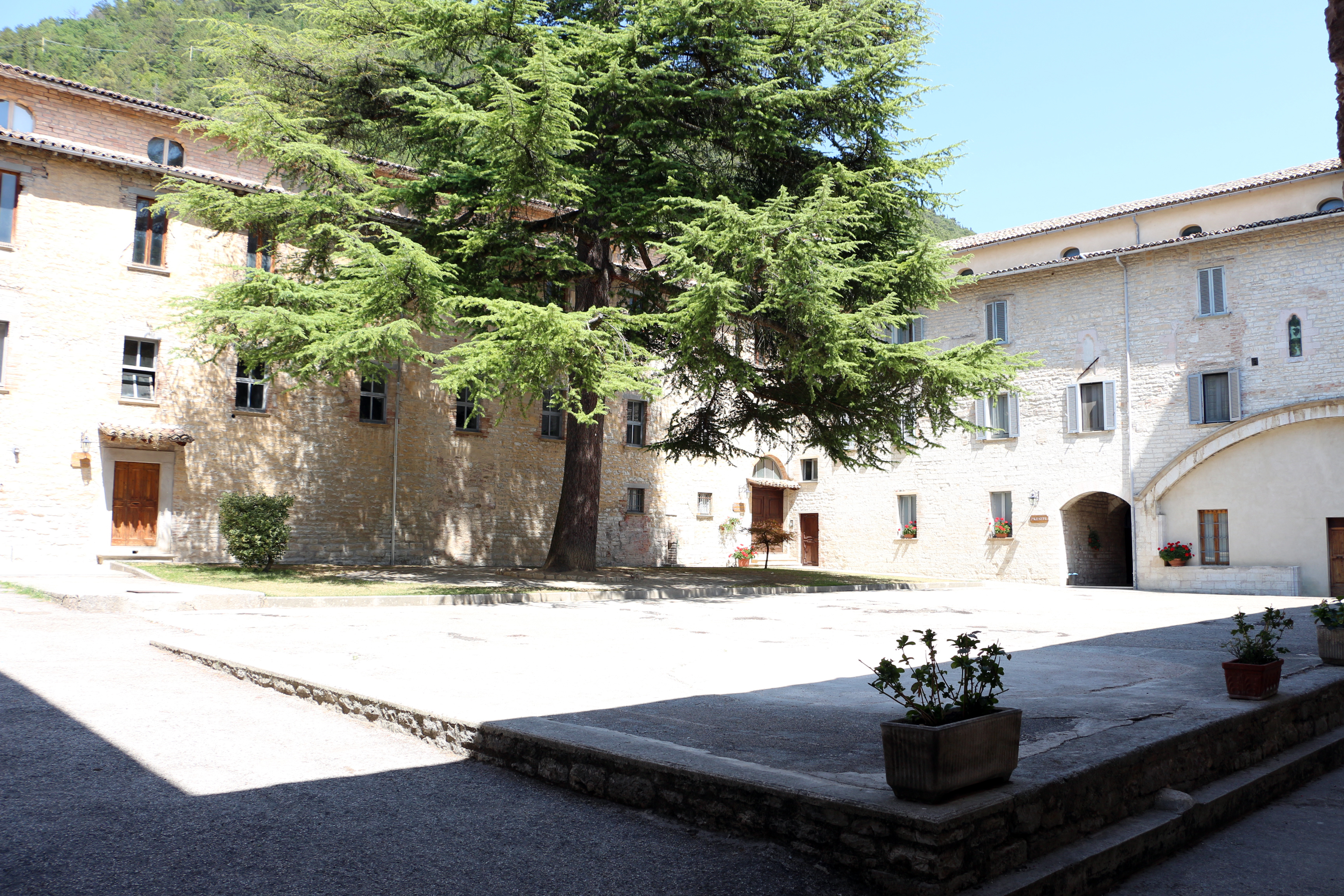 Sant'Agostino (Gubbio)